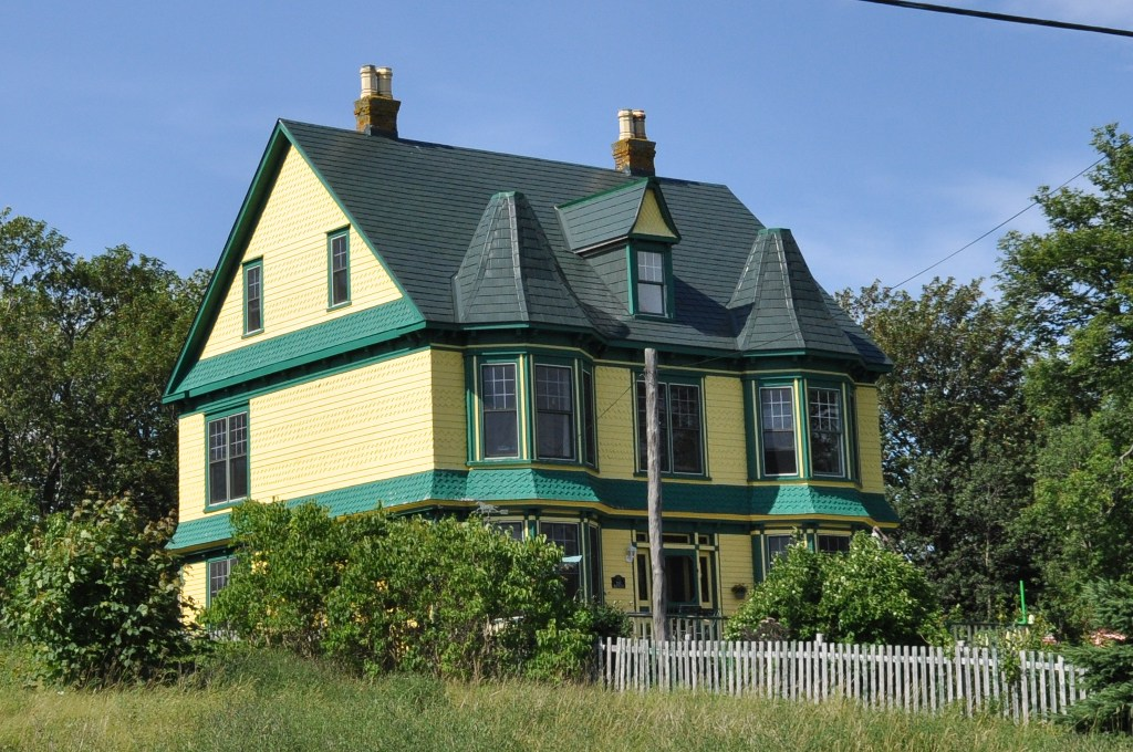 The Maples, Harbour Grace, Newfoundland.